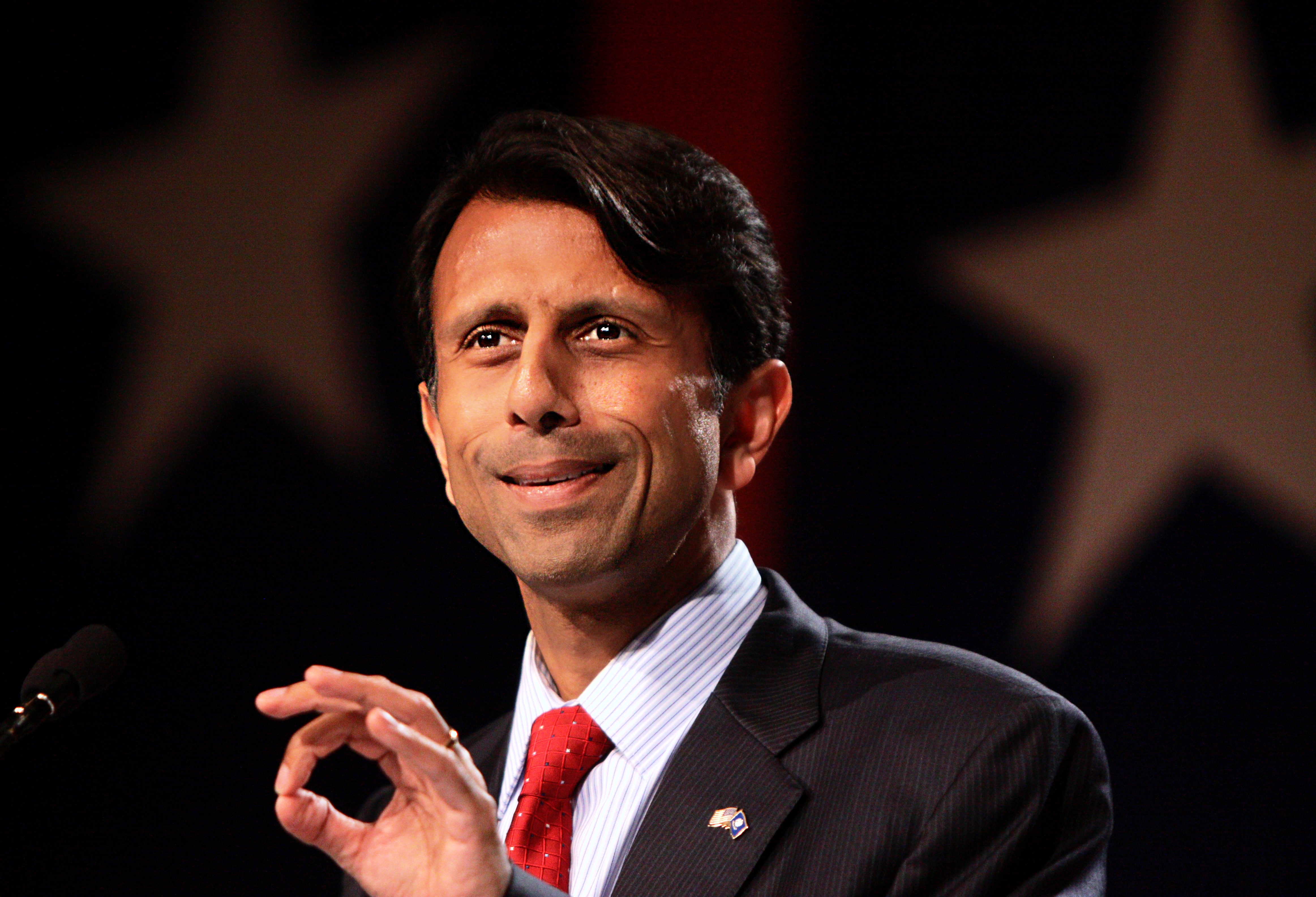 annual political conference held in Washington, D.C. for American social conservative activists and elected officials